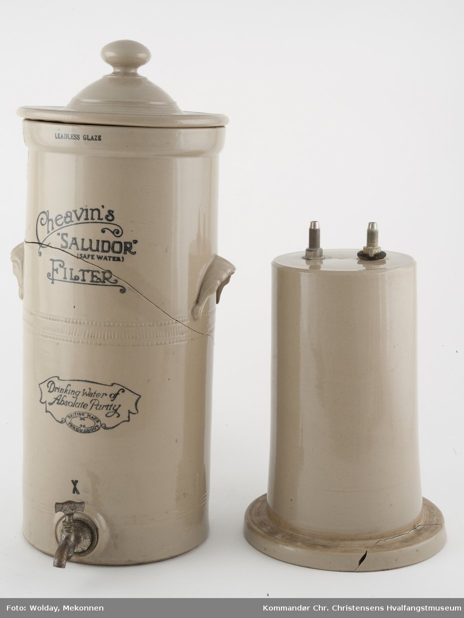 Ceramic water container with a spout, lid and filter.